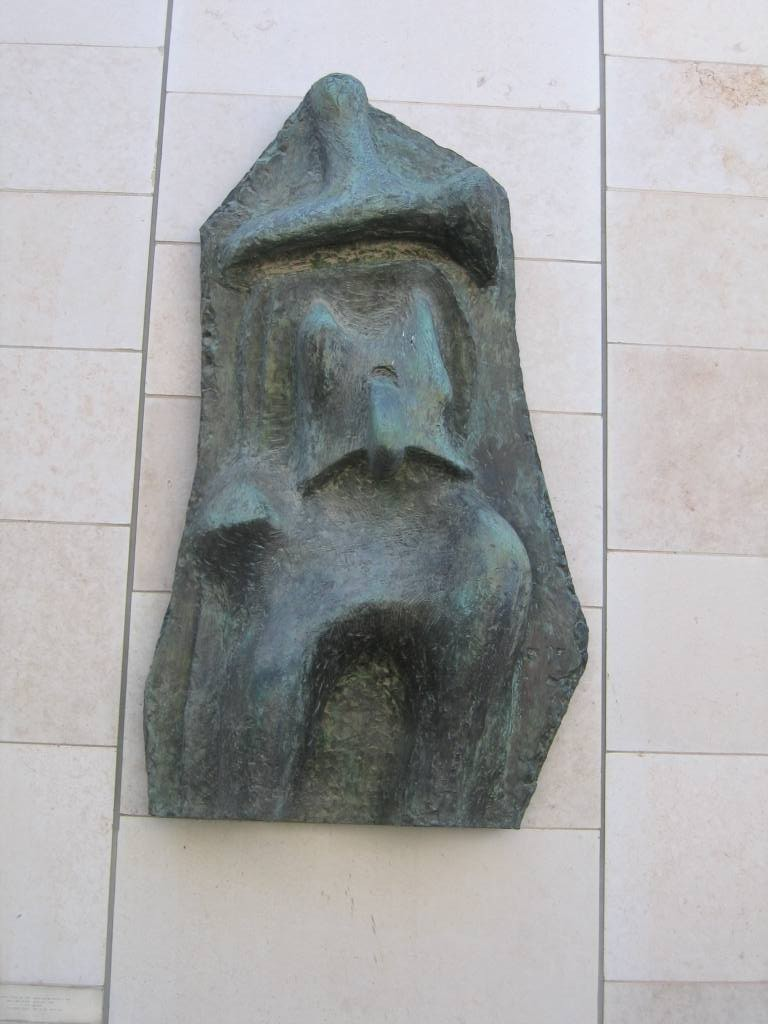 photo by yair talmor, 16.3.2006 at the Israel Museum, Jerusalem